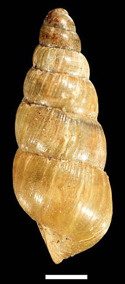 Photo of a lateral view of a shell of Balea sarsii. Locality: Norway, Hordaland, Bergen. Scale bar is 1 mm.